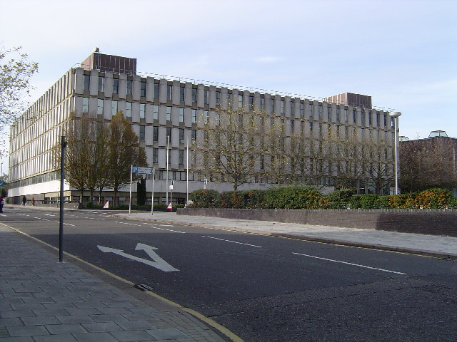 Harrow Civic Centre. The ultimate municipal monolith, and home of Harrow Council! Harrow Council's website is here